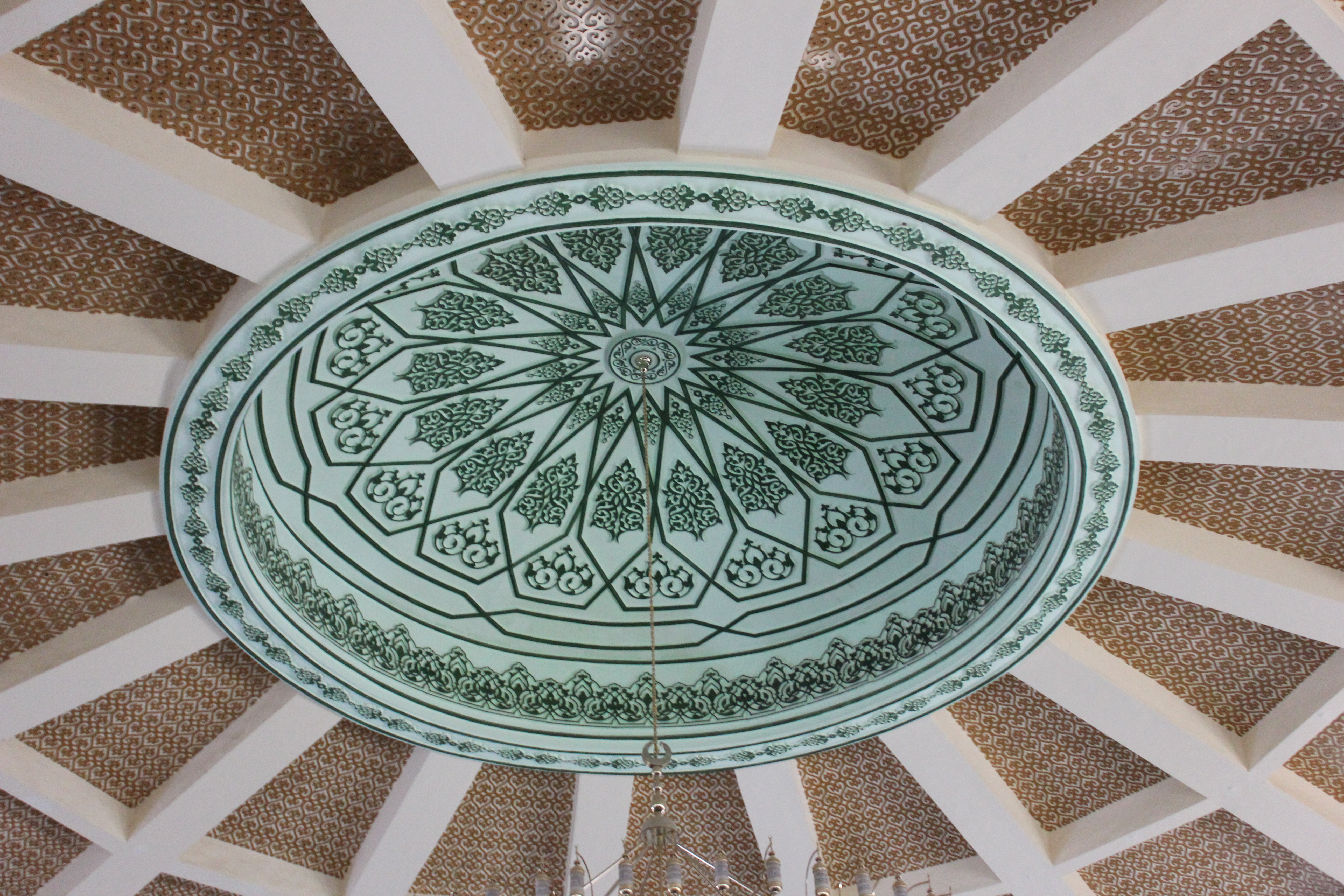 Islamic art in Police Mosque, Egypt.